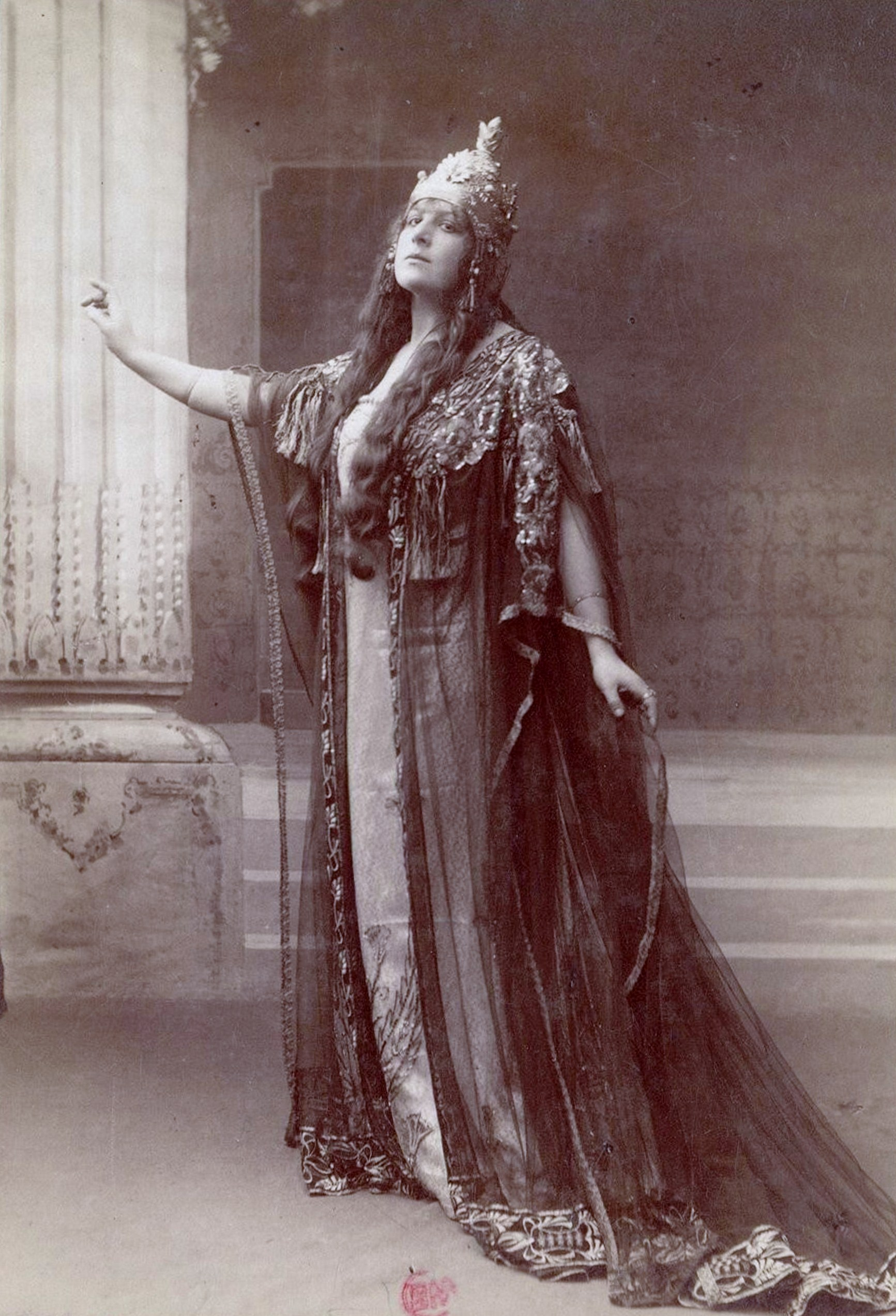 Lucy Arbell, born Georgette Gall-Wallace, is a french mezzo-soprano lyricist and opera singer. She is represented here in the role of Queen Amahelli at the Théâtre de l'Opéra (Palais Garnier), during the creation of Bacchus, an opera in four acts and seven scenes, in 1909.